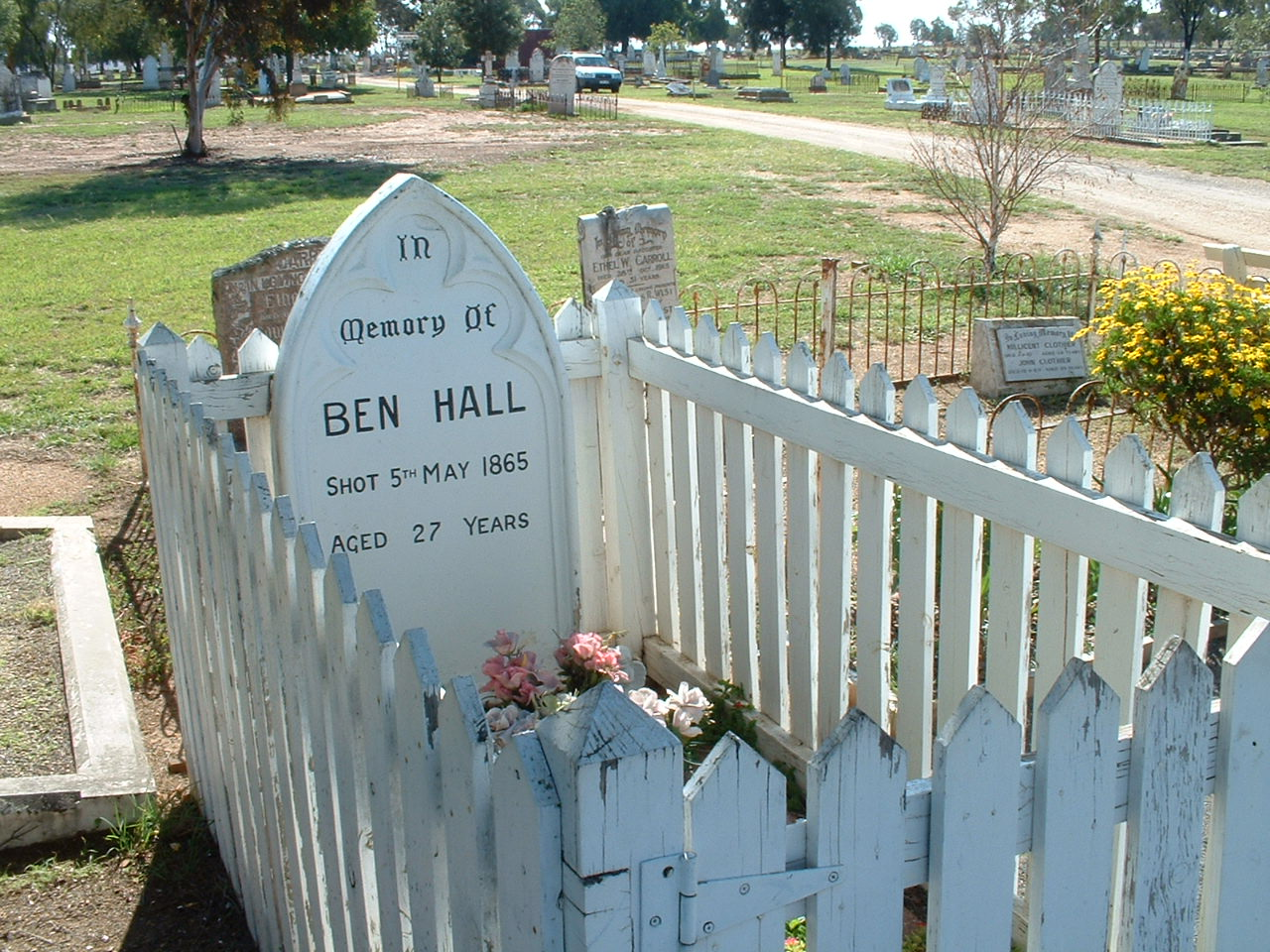 The grave of Australian bushranger, Ben Hall, in the cemetery at Forbes, New South Wales.